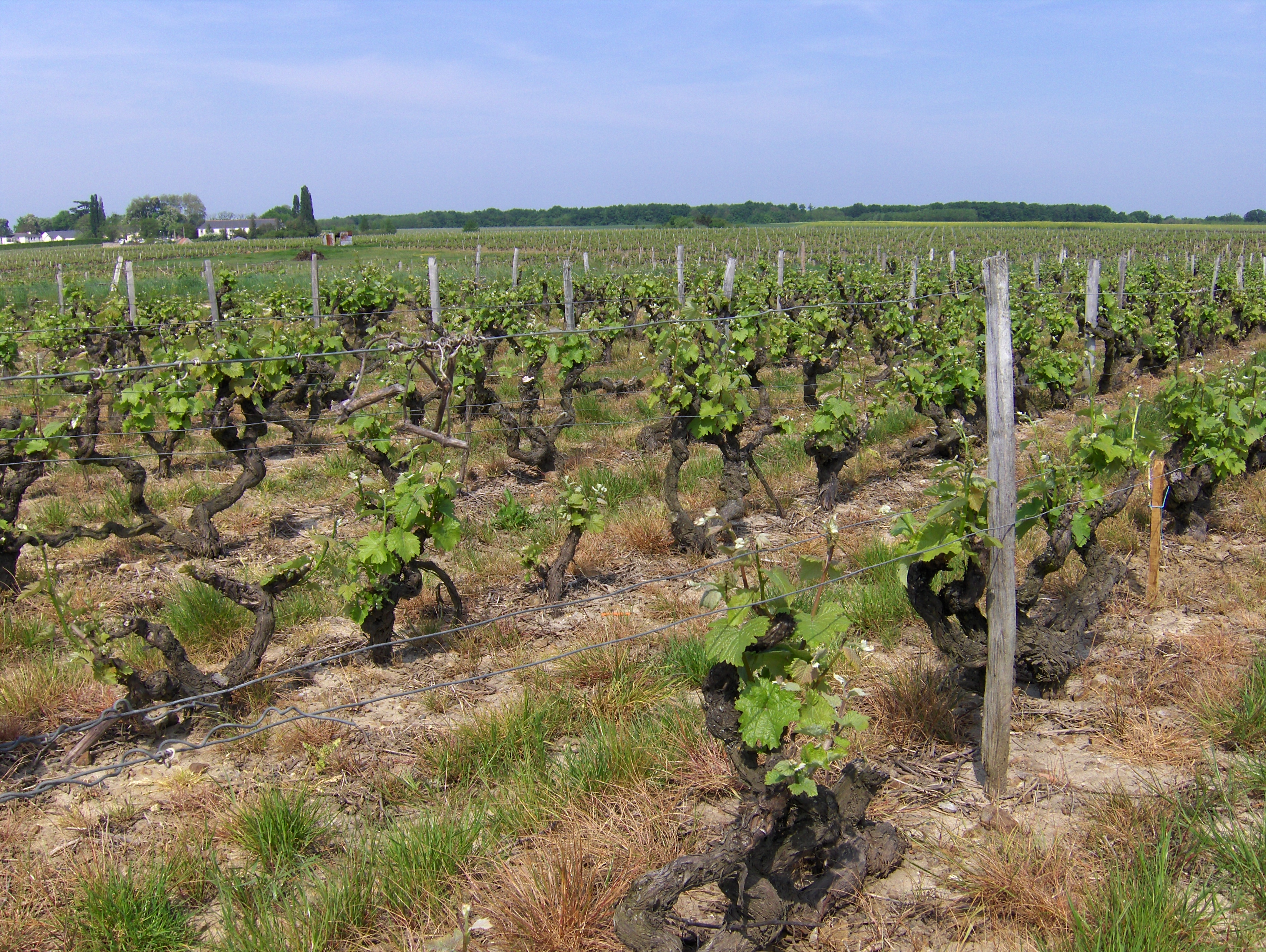 Vineyard in the Loire Valley wine region in late April after budbreak as the vine develops foliage for photosynthesis and bud development